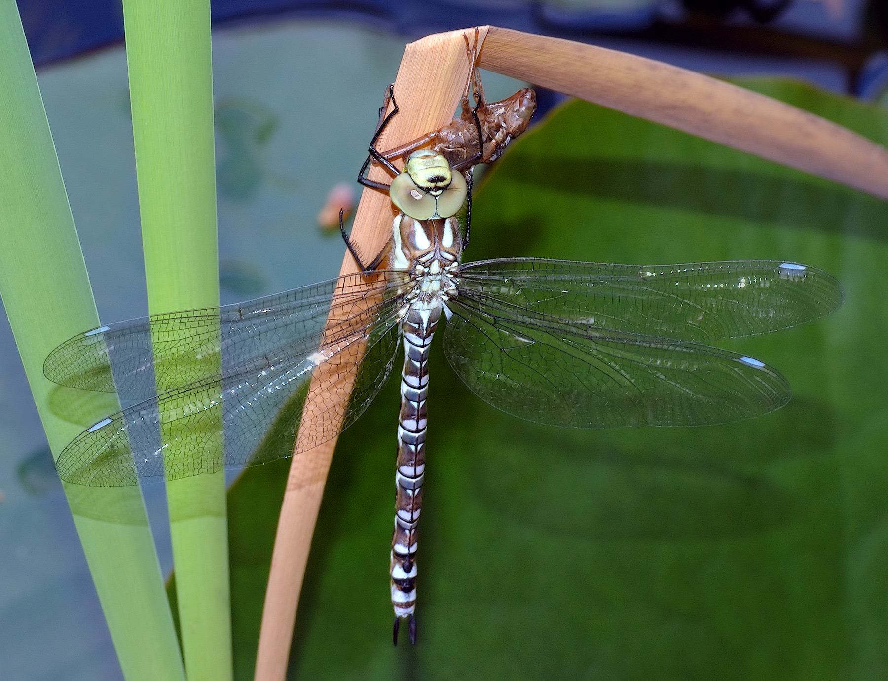 This image shows a young female dragonfly of the species Aeshna cyanea.